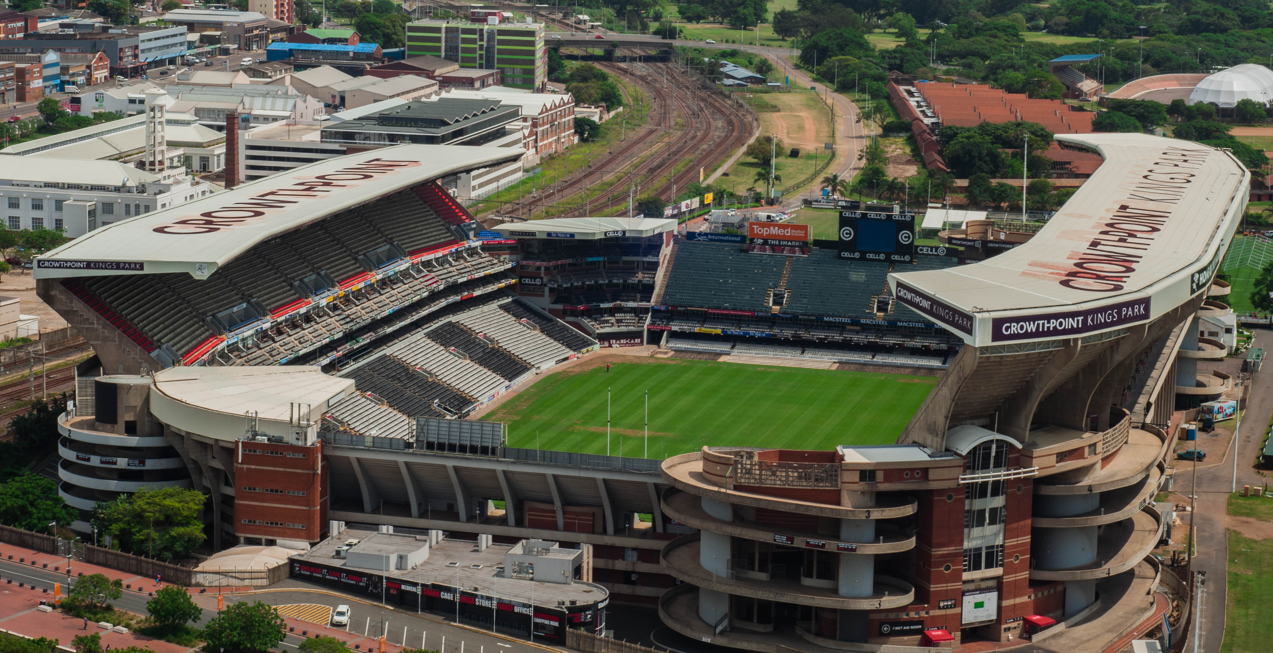 King's Park Stadium, looking North, taken from The Mose Mabiha stadium